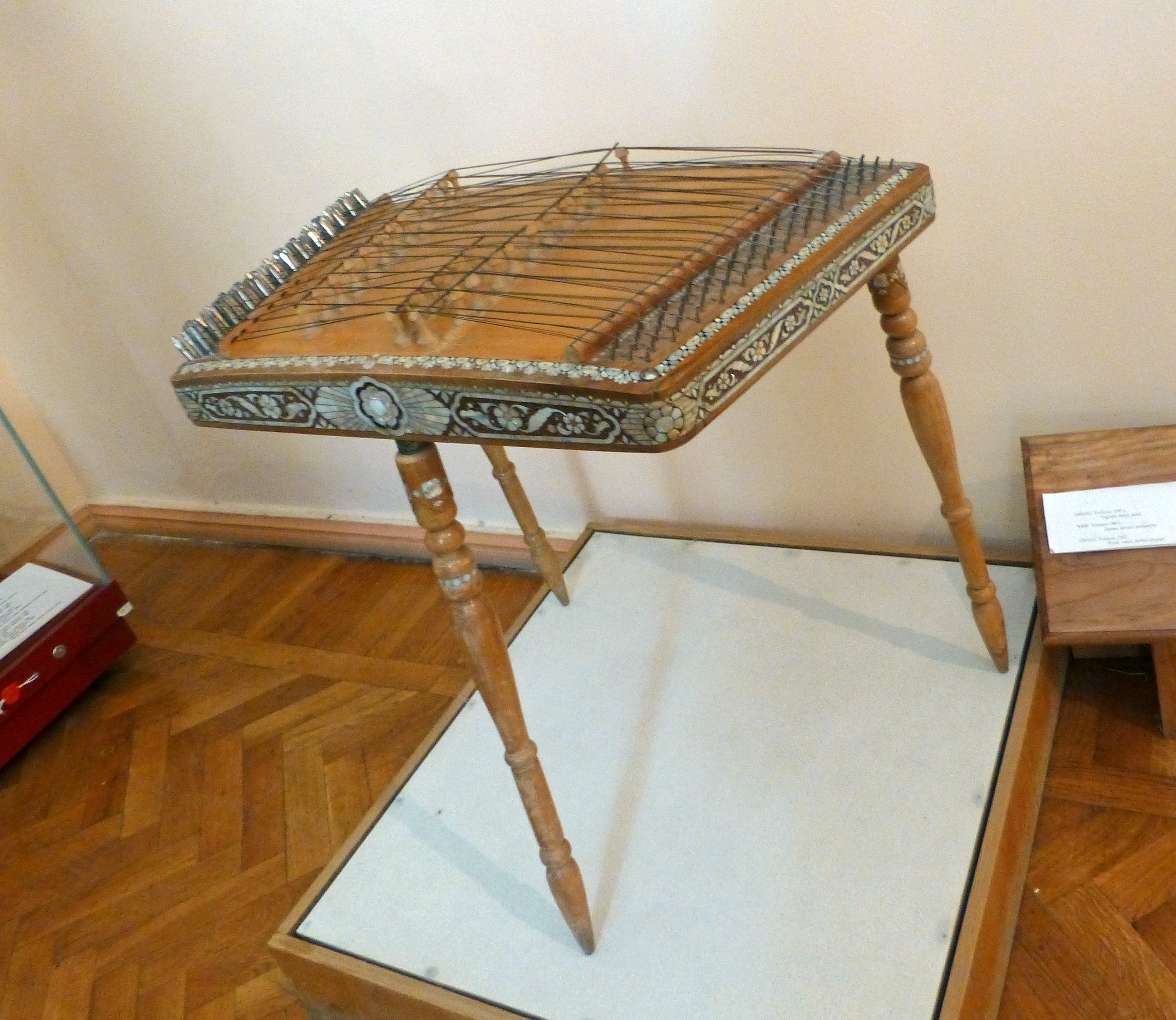 Chang, Tashkent, 1987. Wood, metal, mother-of-pearl. Tashkent, Museum of Applied Arts